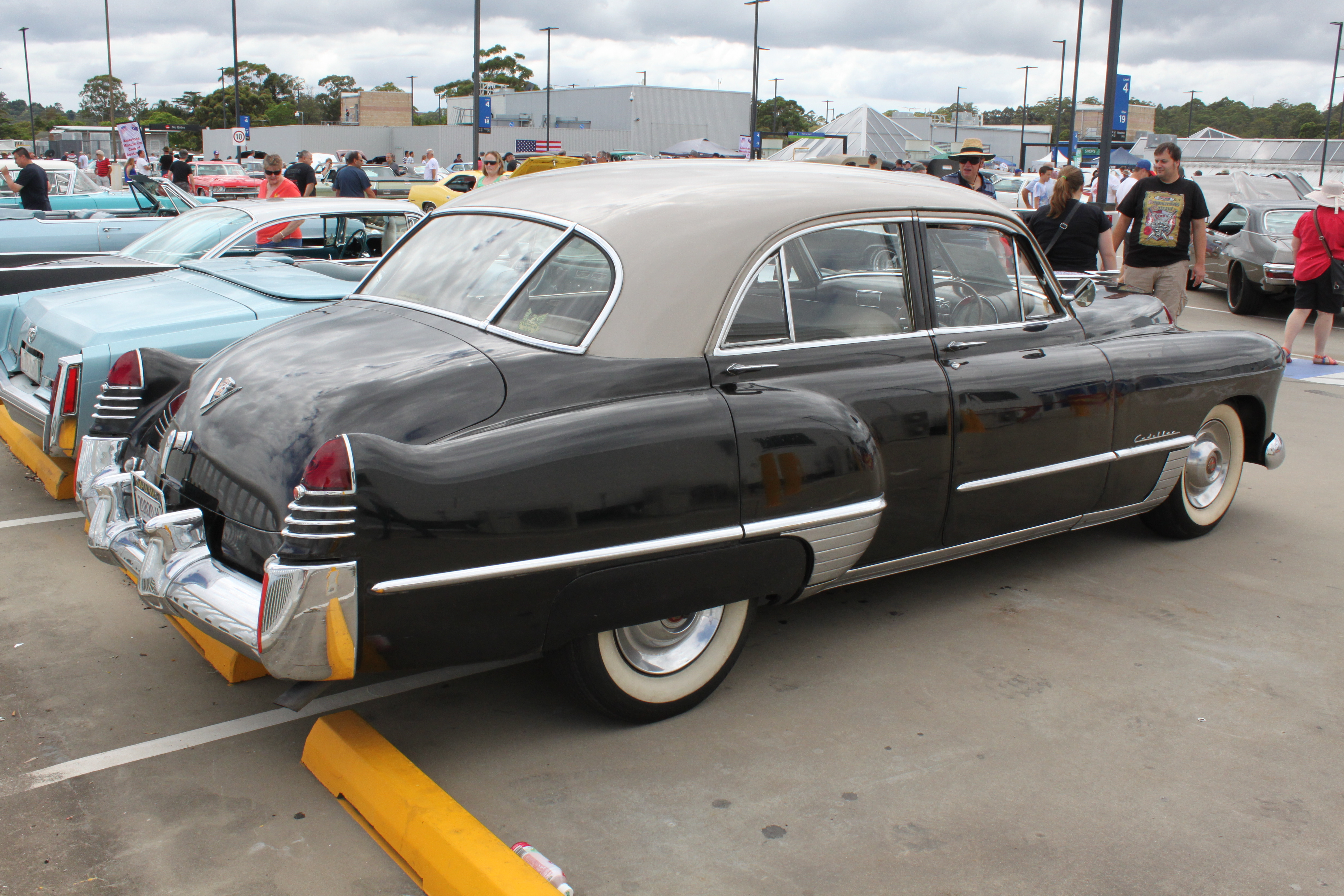 All American Car Show, Castle Hill, NSW January 2016